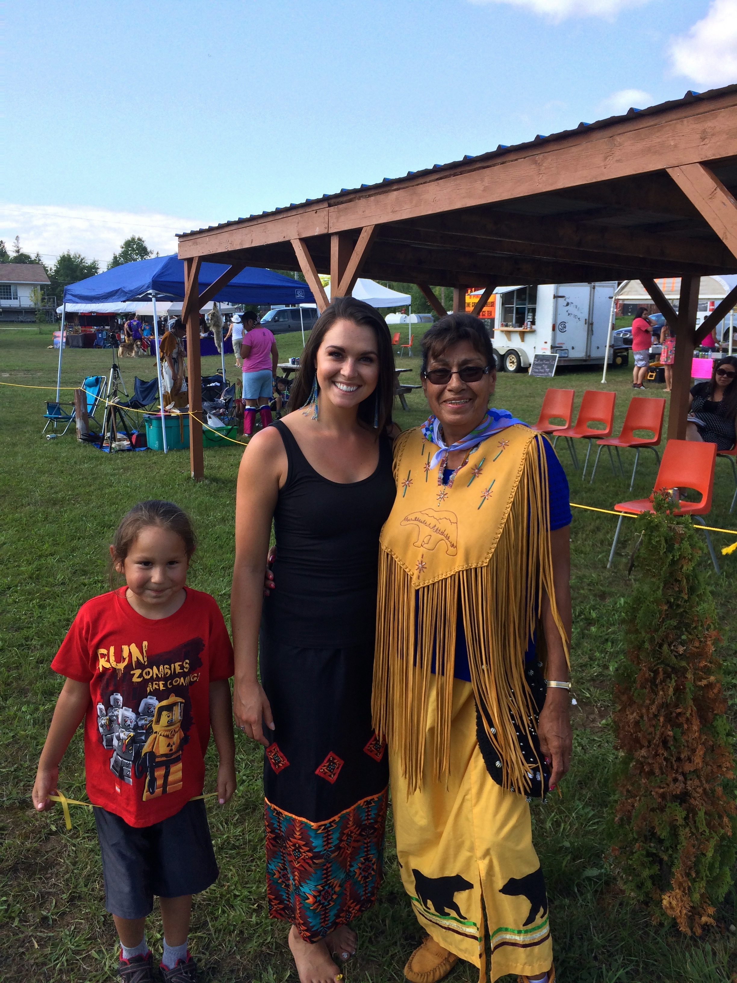 Mekayla with Chief Irene and brother.